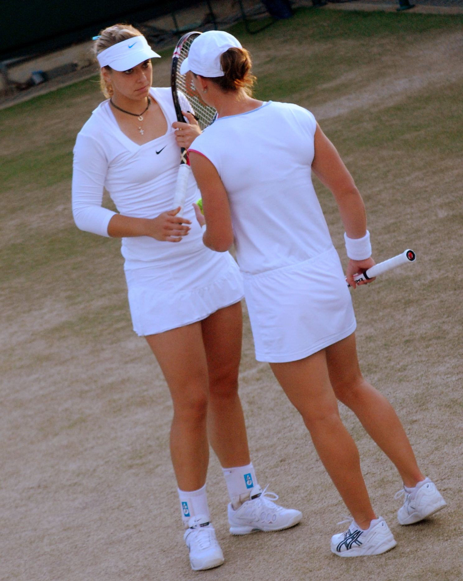 Sabine Lisicki & Sam Stosur during their semi-final with Marina Erakovic & Tamarine Tanasugarn. The match had to be finished the following day, with Lisicki & Stosur winning 6-3 4-6 8-6. They then went on to play the final, in which they lost to Kveta Peschke & Katarina Srebotnik. Day 11 of Wimbledon 2011.